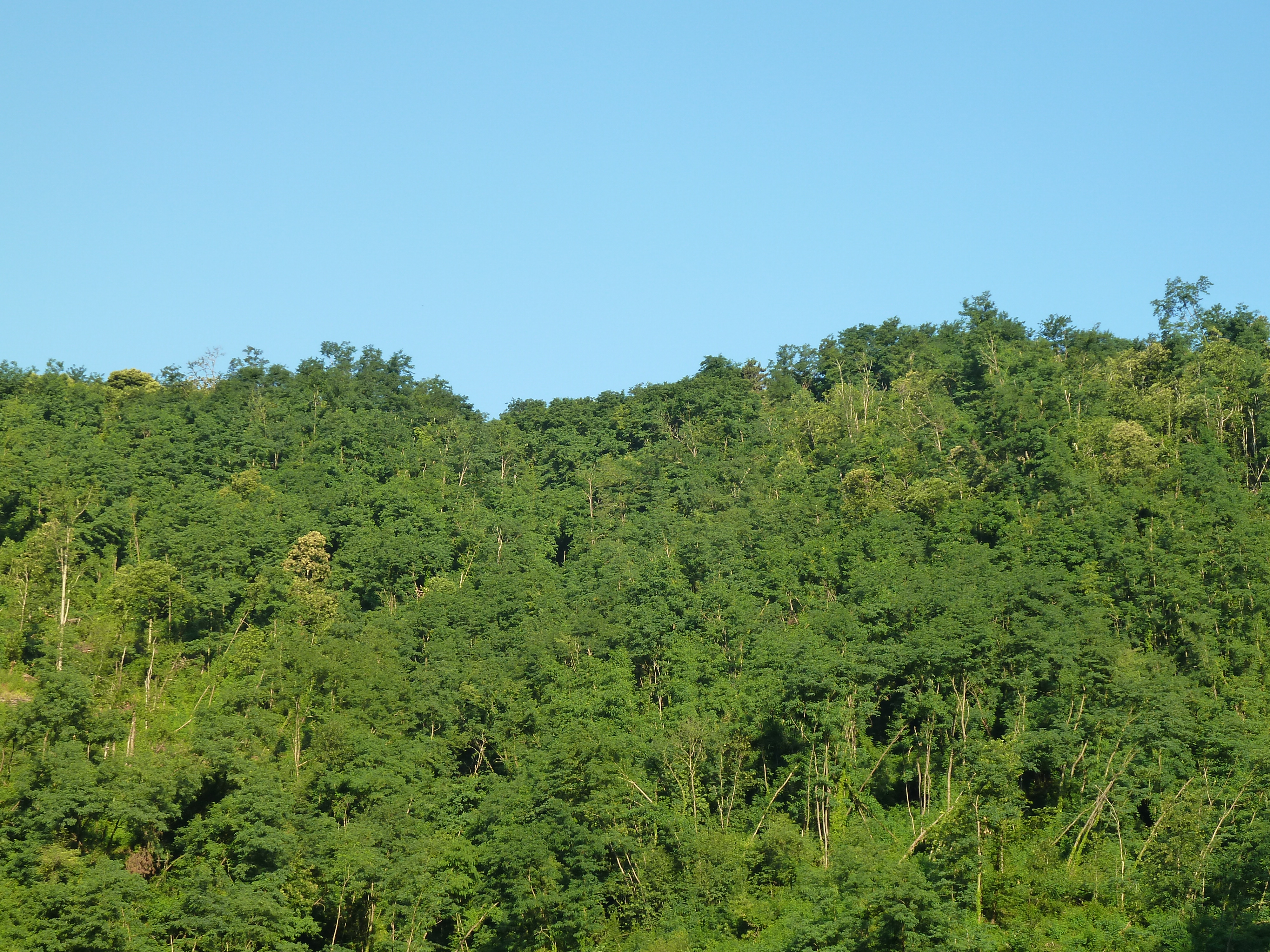 Bagni di Lucca, Italy June 2015